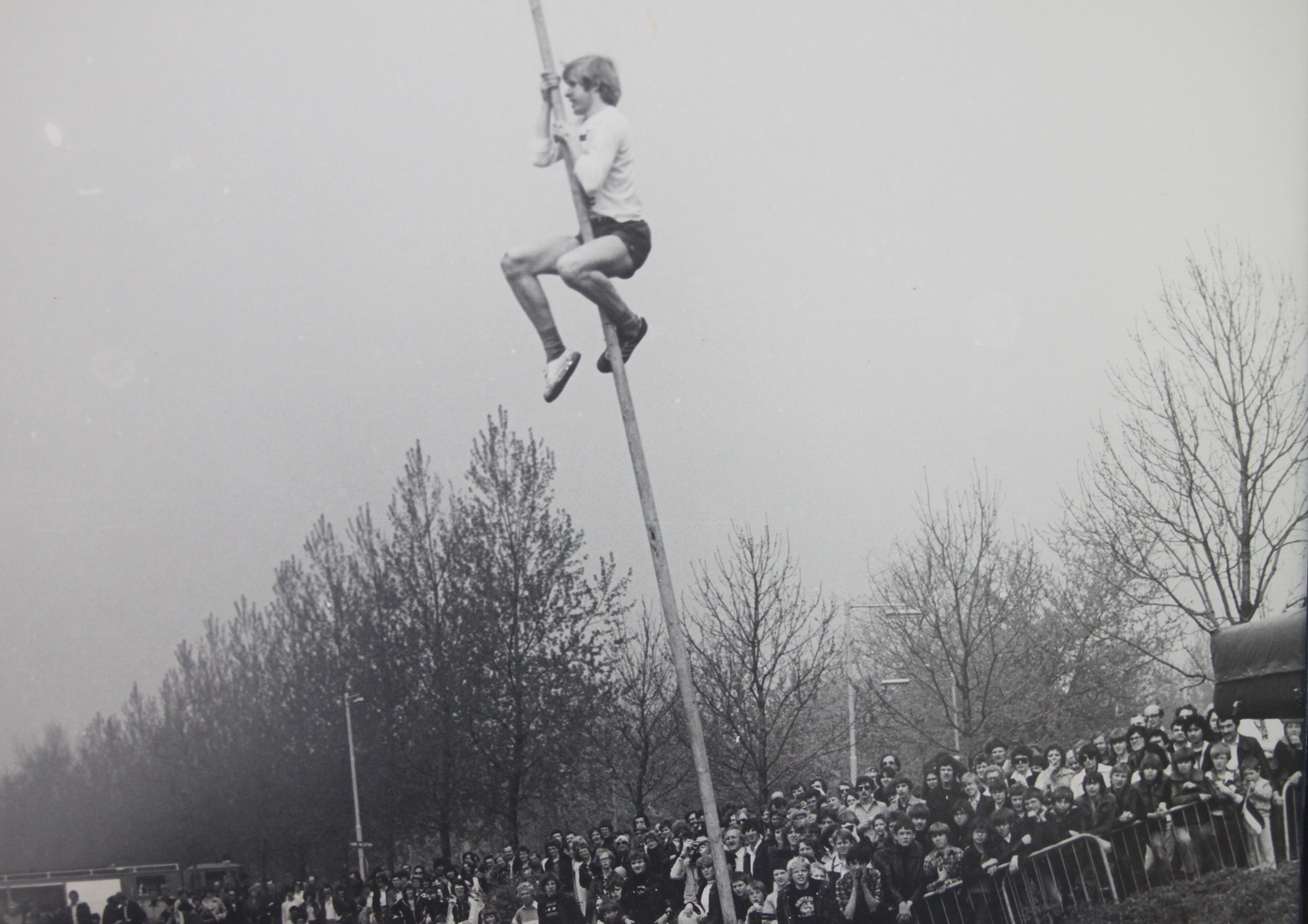 Fierljeppen in Spijkenisse